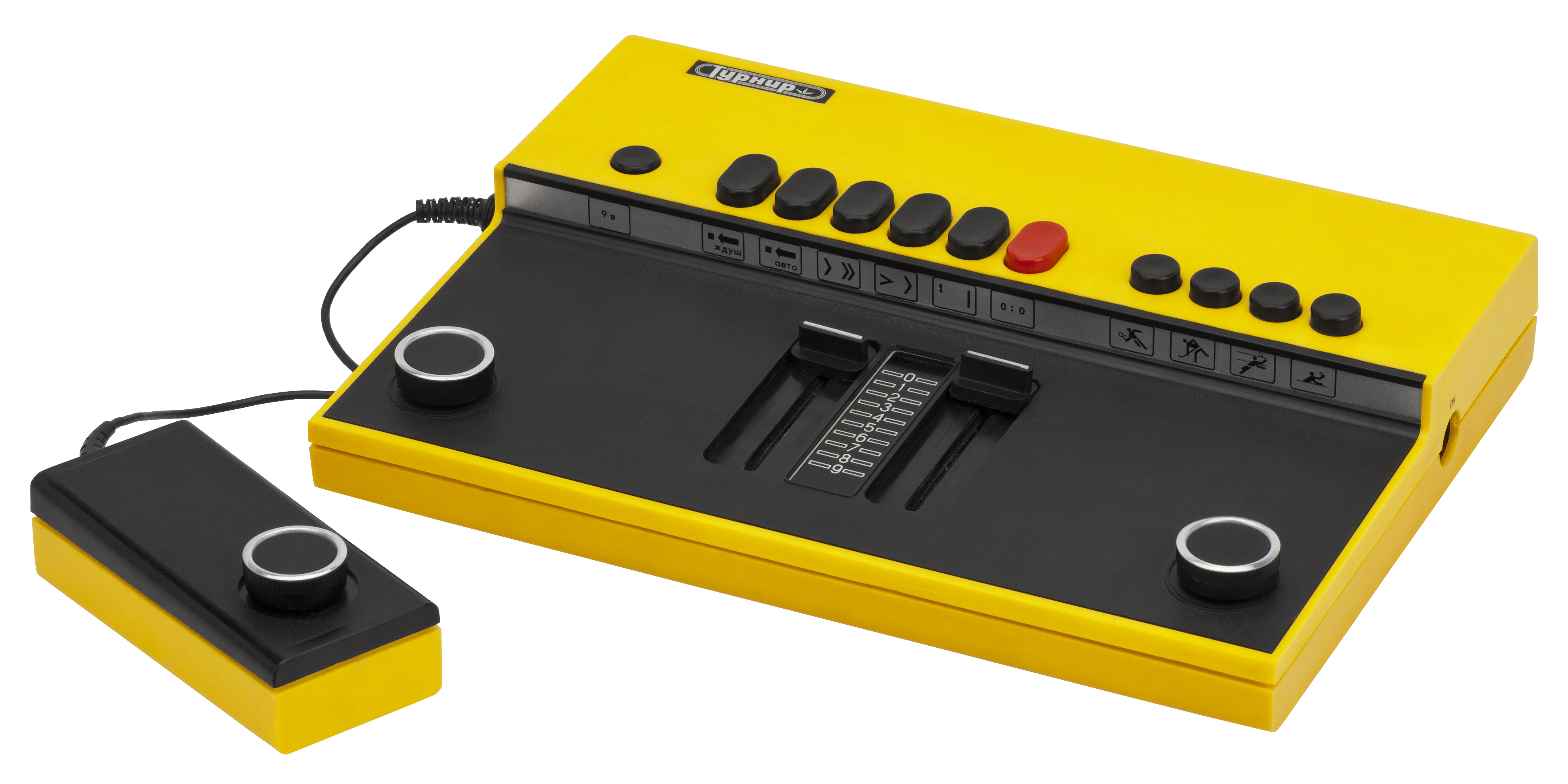 A Турнир game console, from Russia. This is a dedicated pong console and I really don't know much else than that, due to the language barrier.